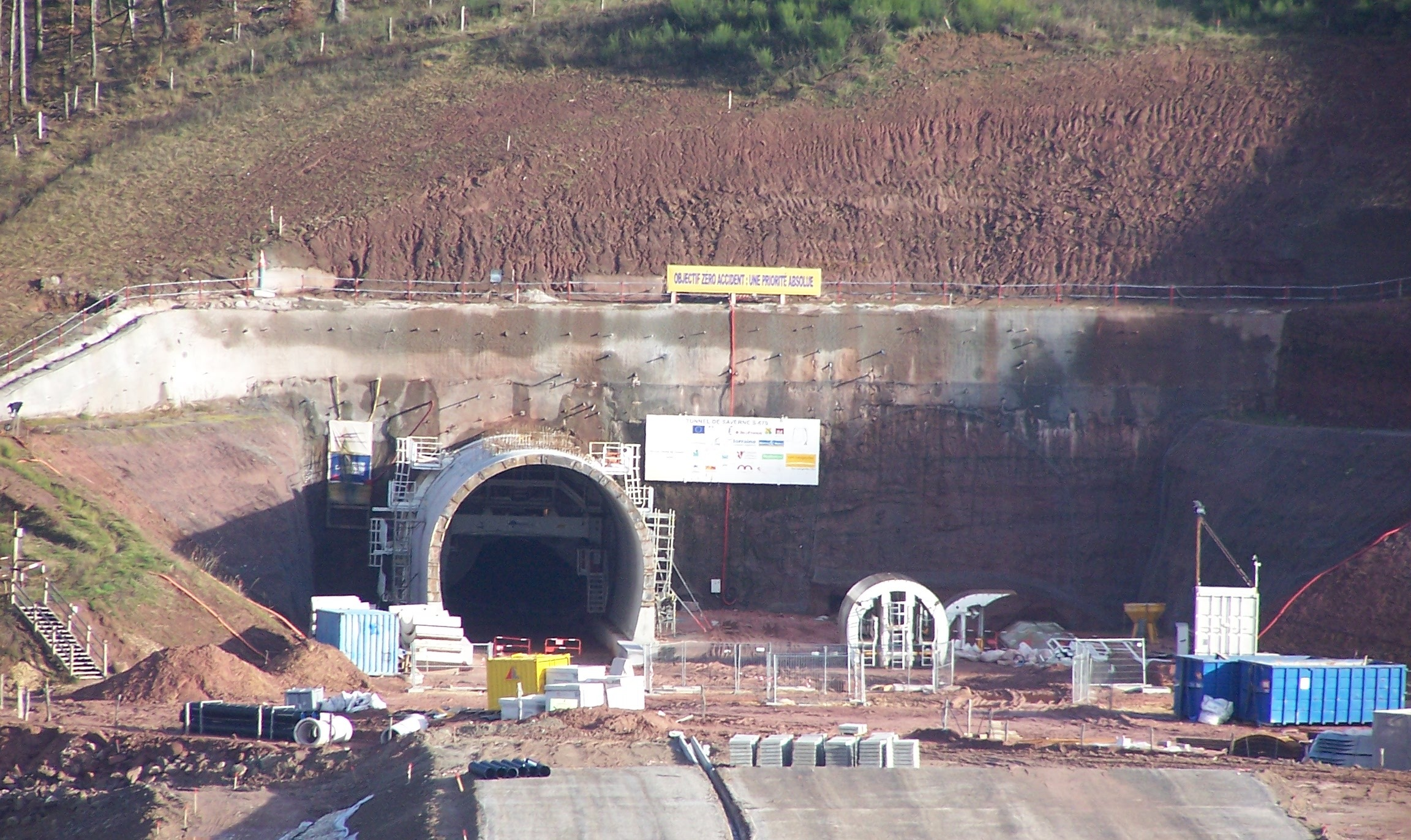 West end of the twin-bore Saverne Tunnel, where only one tunnel has been bored.